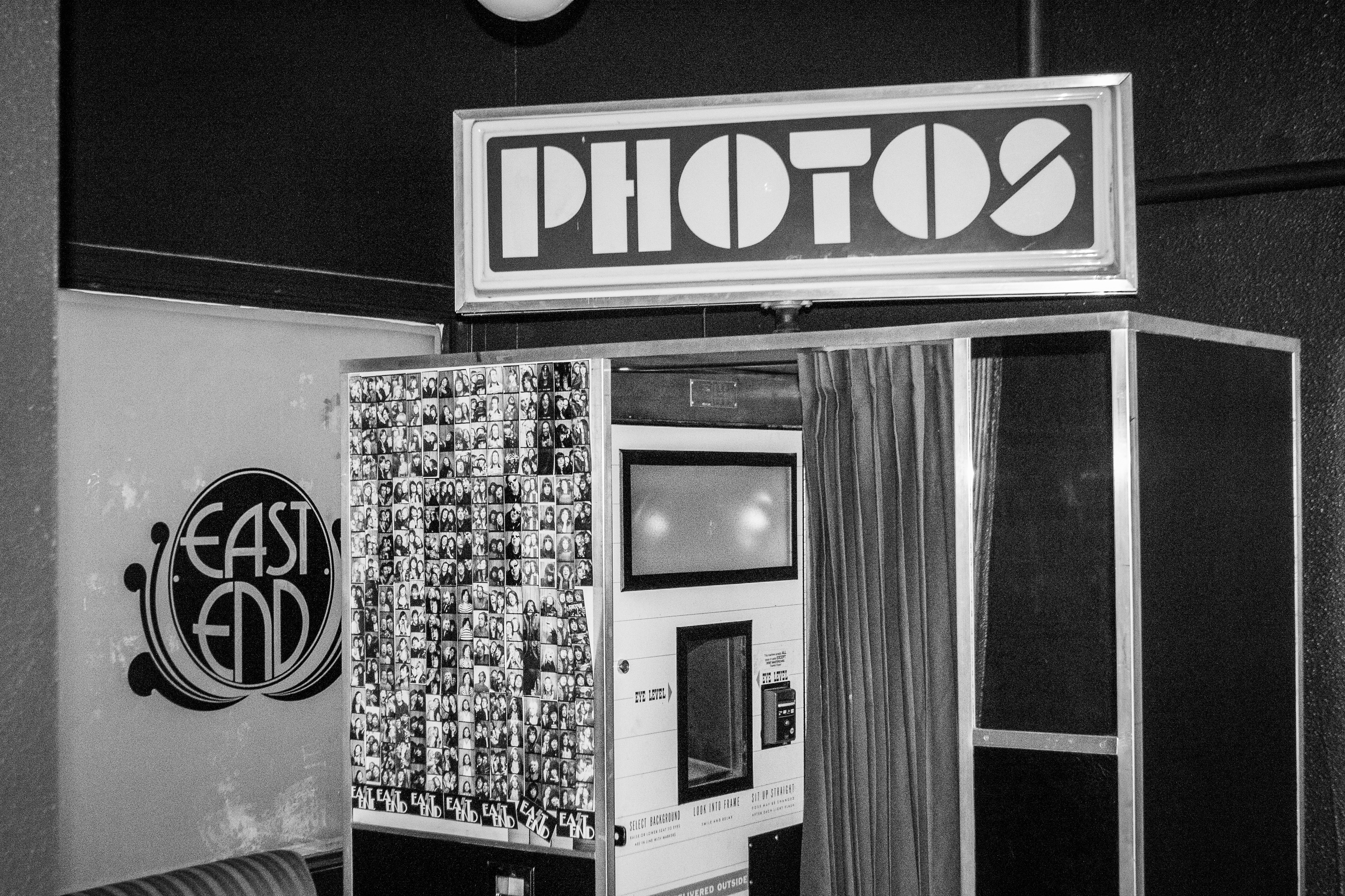 A photo booth in the East End at the Osborn Hotel in the East Portland Grand Avenue Historic District